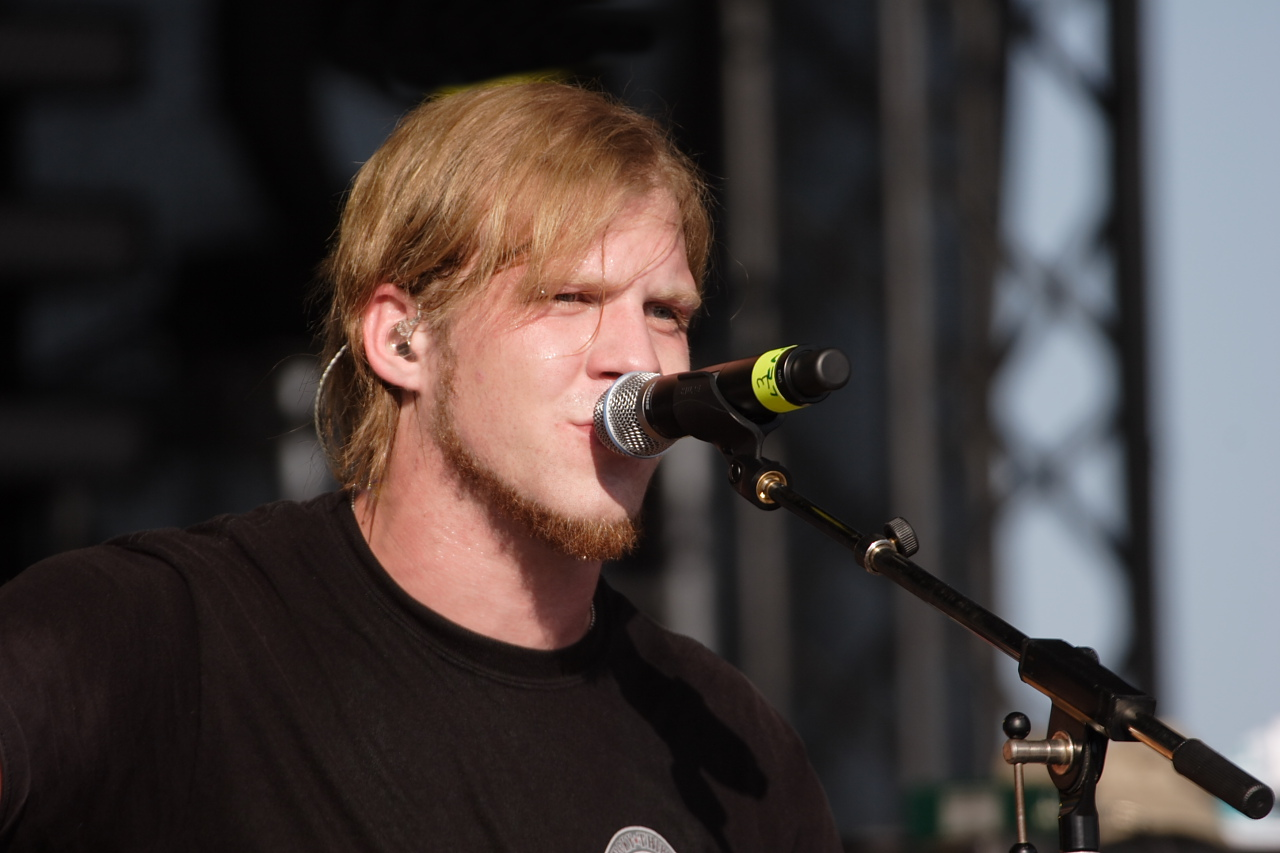 Tobias Regner (Open Concert at subway opening U1, Vienna)